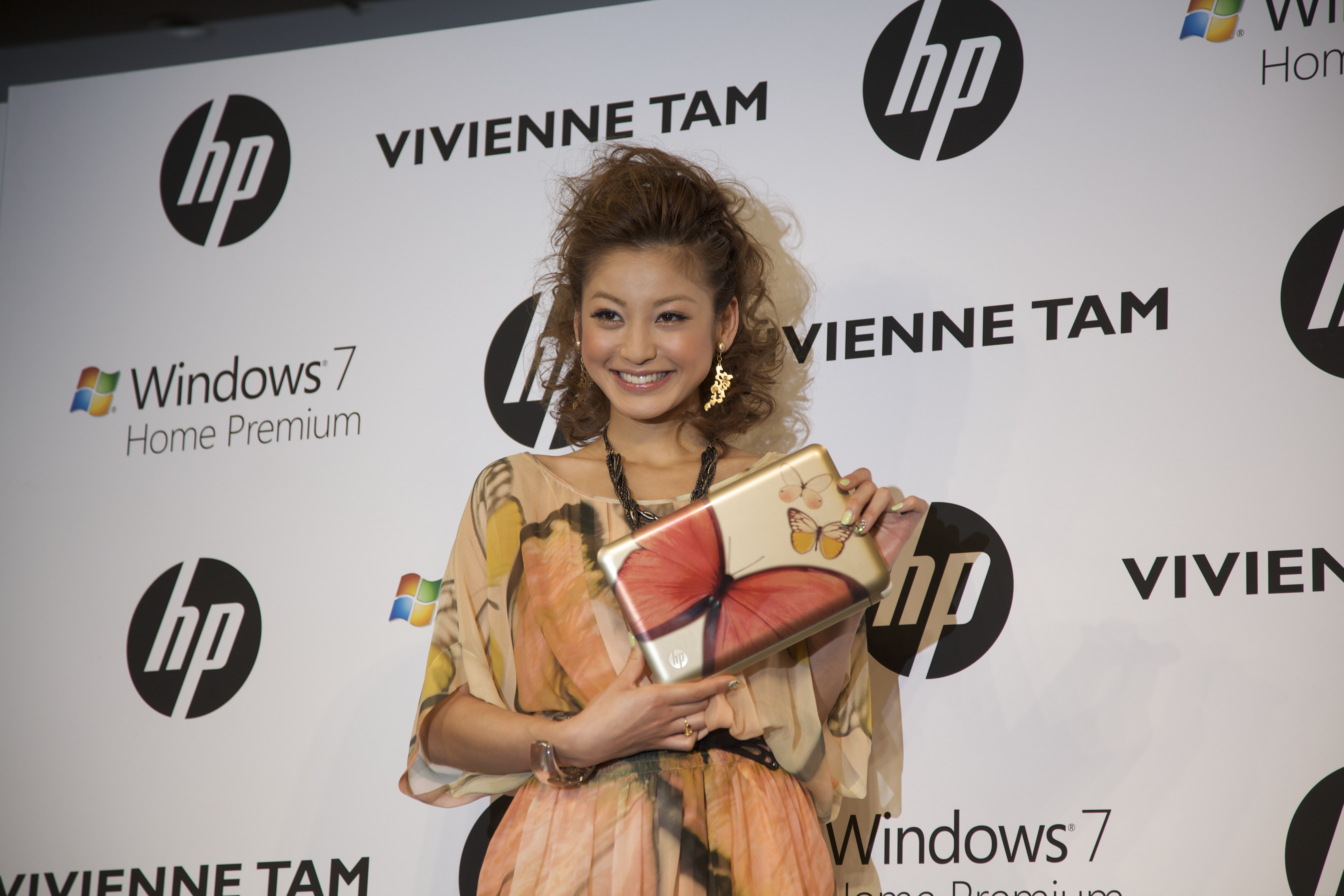 Maki Nishiyama